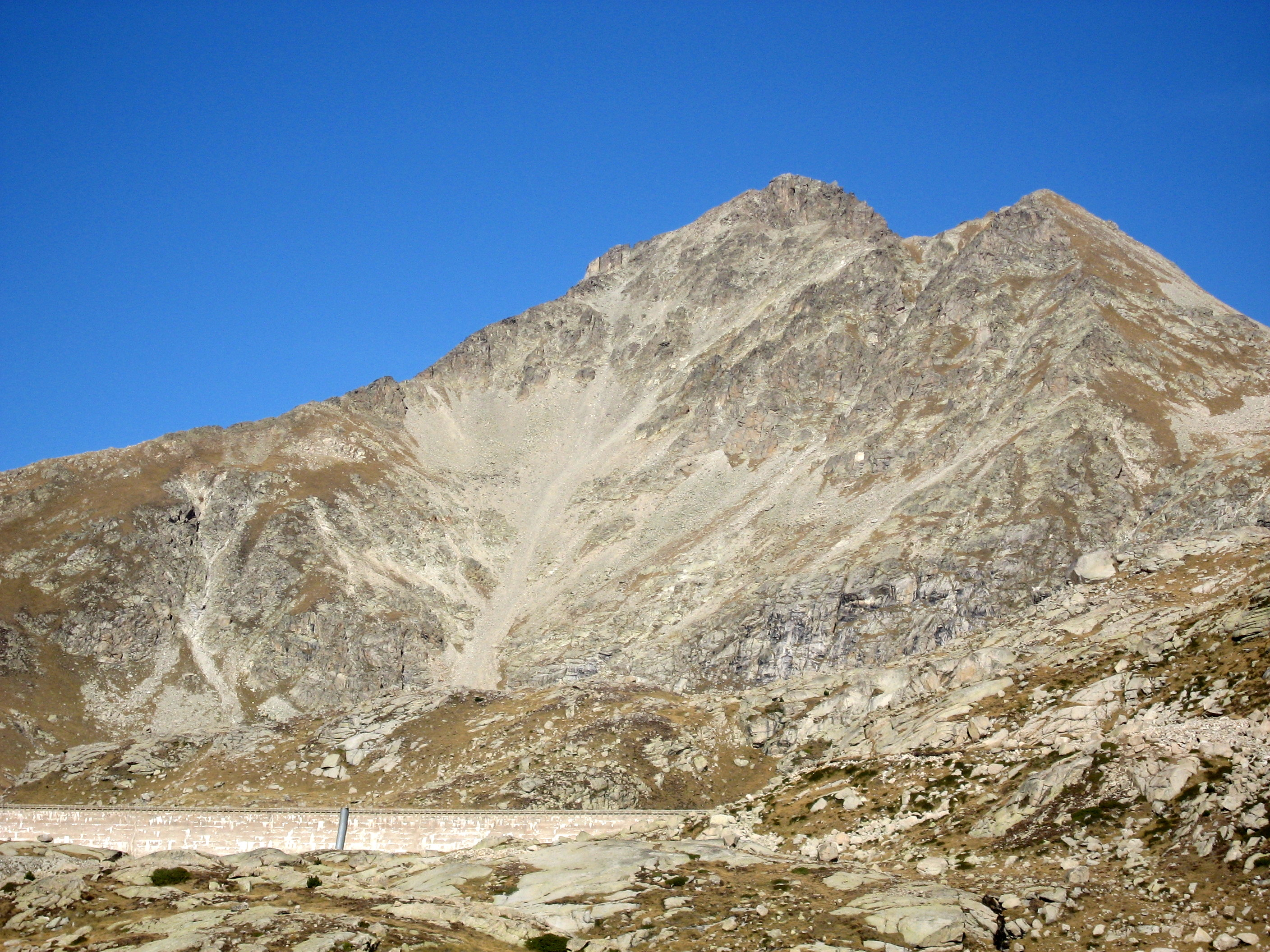 Pic Subenuix (Subenuix Peak) in Pallars Jussà, Catalonia, Spain.